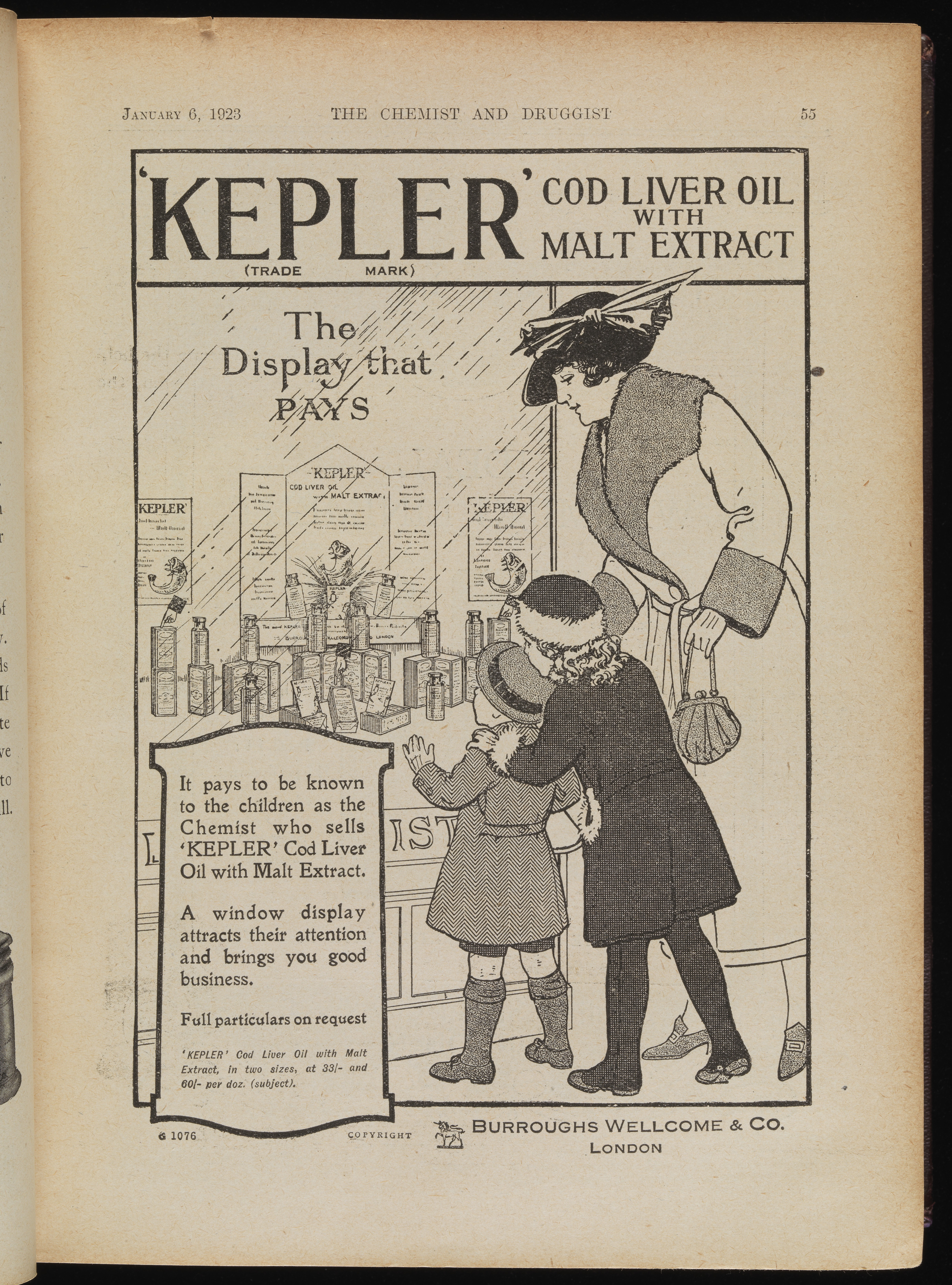 'Kepler' Cod Liver Oil with Malt Extract. The Display that PAYS. Advertisement in The Chemist and Druggist dated January 6, 1923 Product by Burroughs Wellcome and Co. London. General Collections Keywords: Drug Industry; Advertising as Topic; Cod Liver Oil